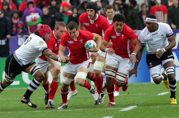 coupe du monde de rugby 2011 nouvelle zelande pays de galles fidgi